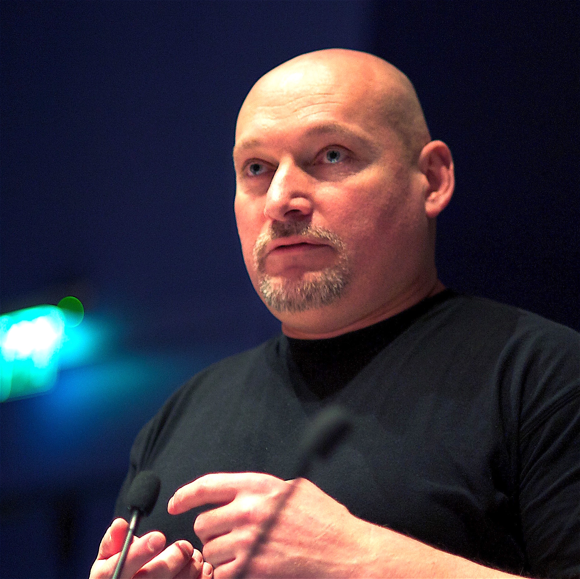 Film: Den andre siden / Taliban Behind the Masks. Foto av Carsten Aniksdal.